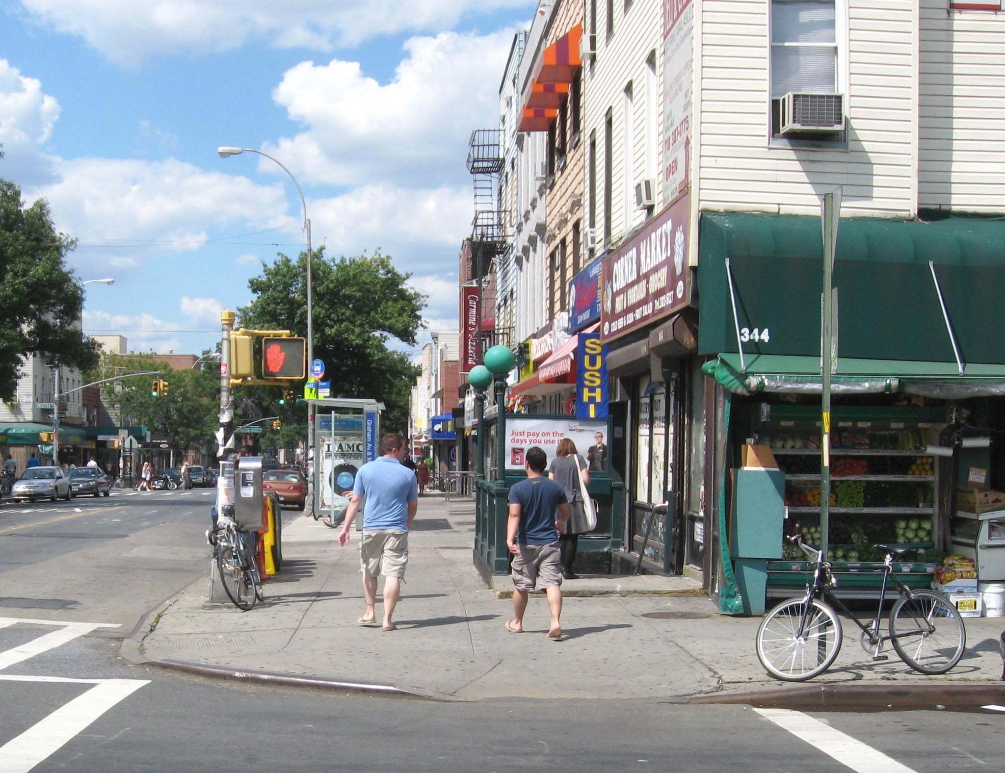 Looking north along Graham Avenue and across Metropolitan Avenue at Graham Avenue (BMT Canarsie Line) street stair on a sunny midday.